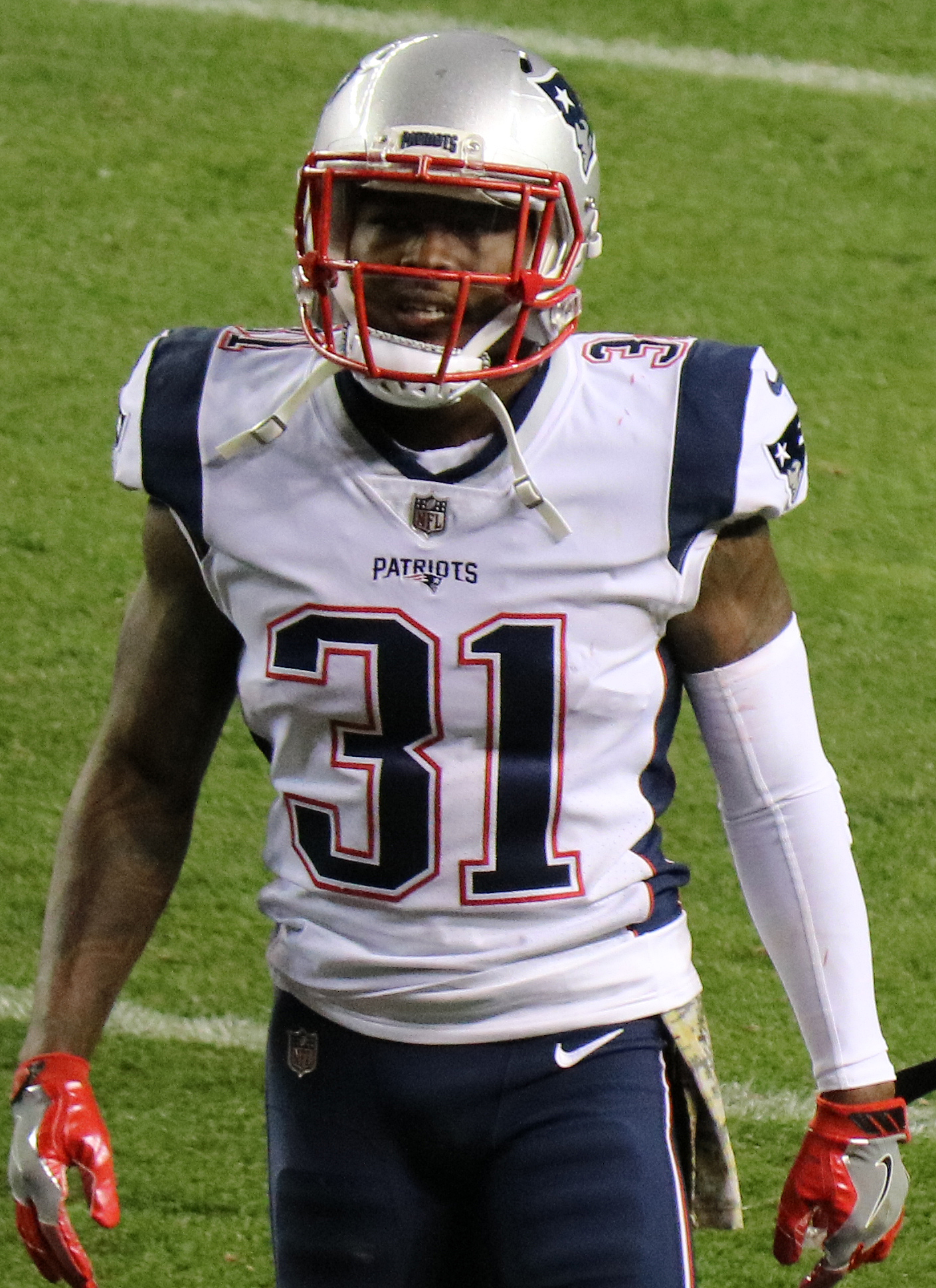 Jonathan Jones, a National Football League player.